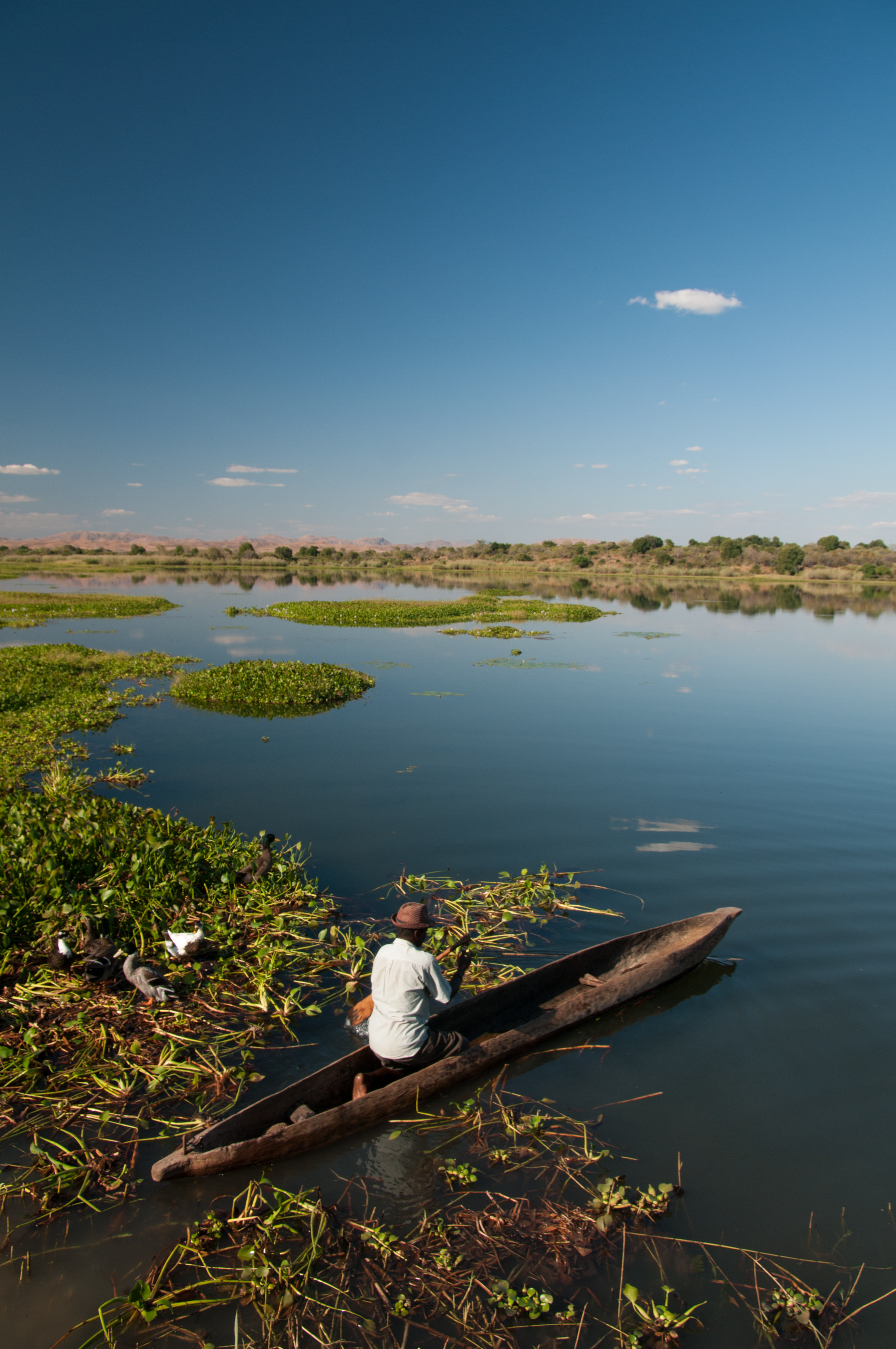 Fisherman in Malagasy Lake infested with Eichhornia crassipes. Taken in Manambina (Menabe district)